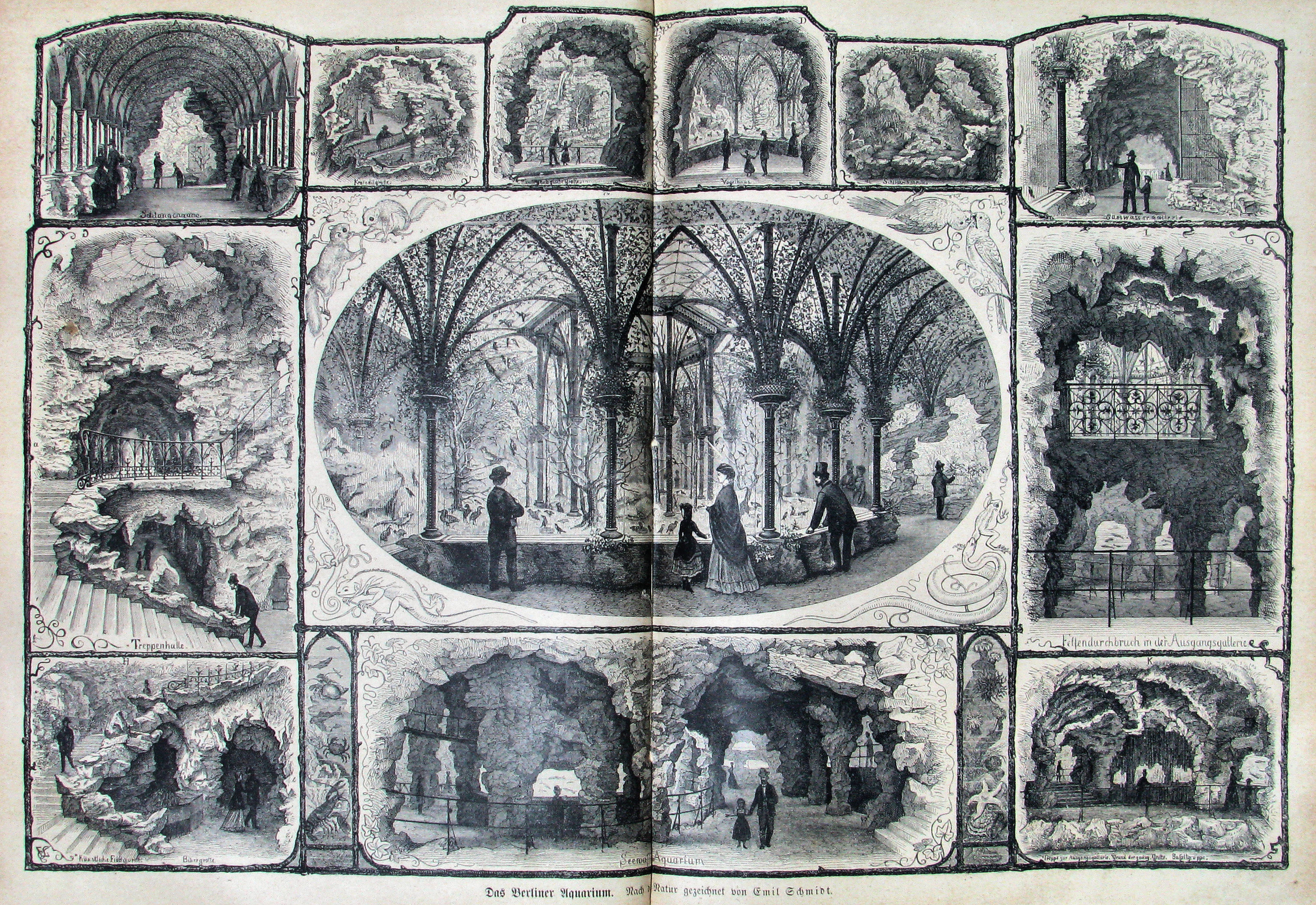 caption: "Das Berliner Aquarium. Nach der Natur gezeichnet von Emil Schmidt."